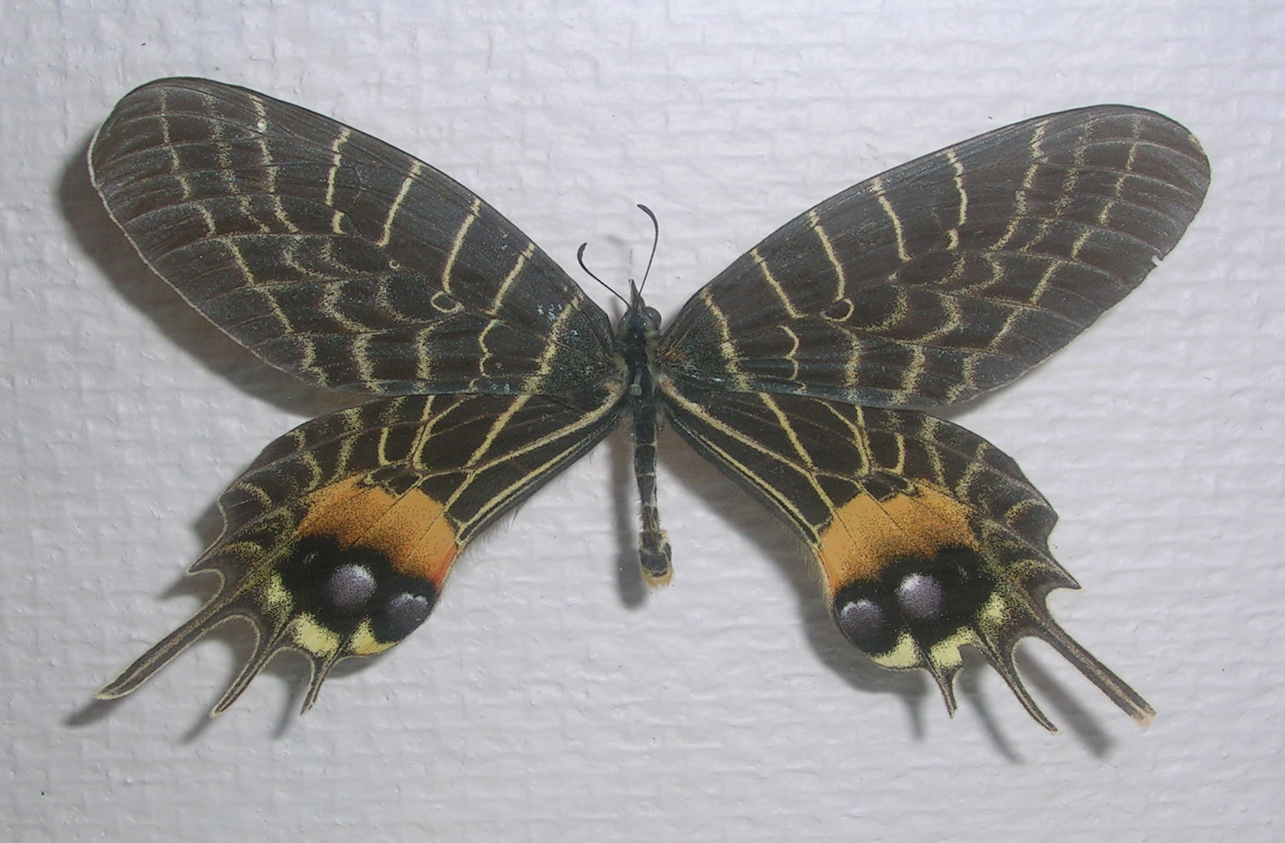 Bhutanitis lidderdalii from the Natural History Museum at Oslo.